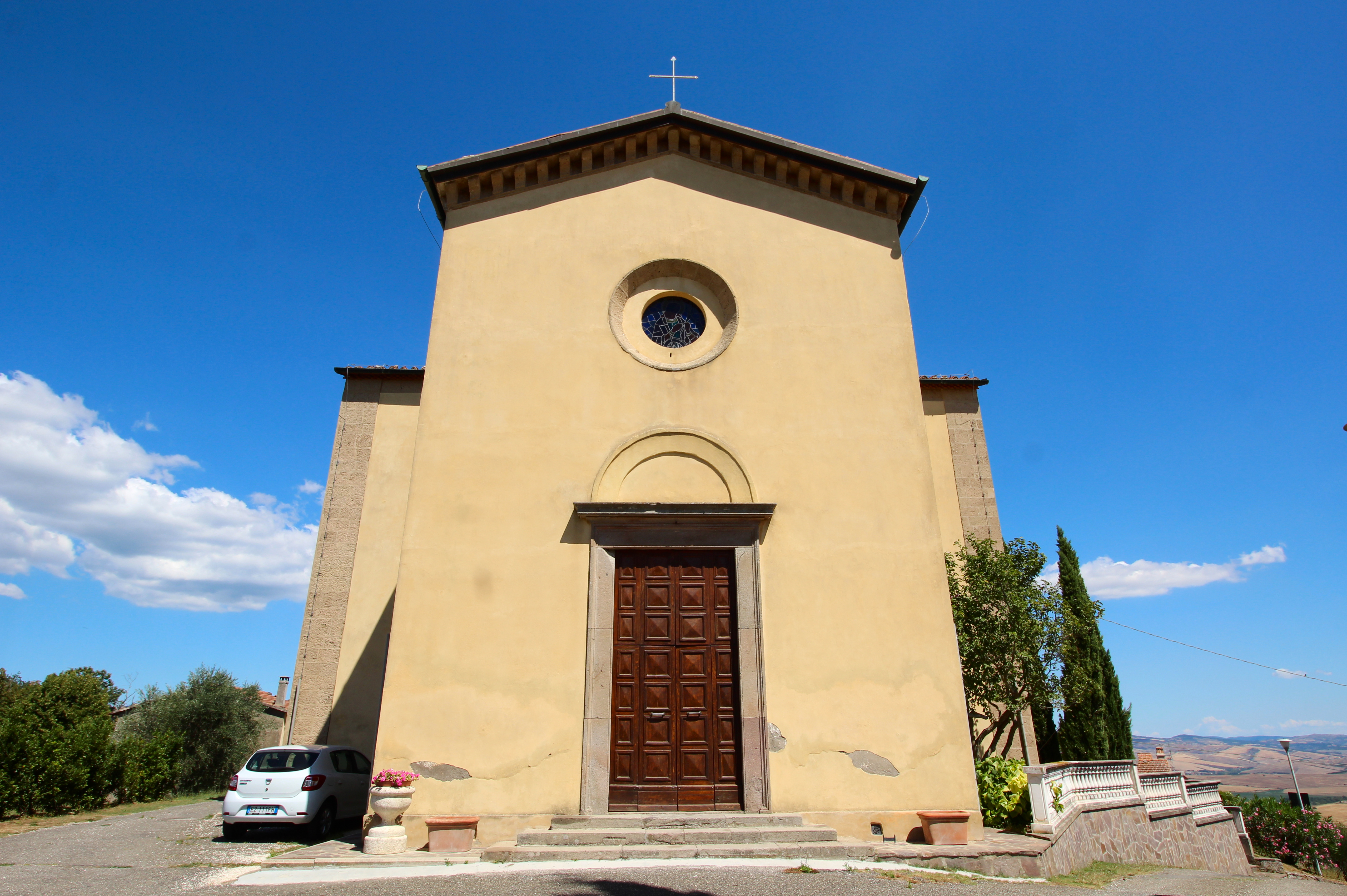 Church Santa Caterina delle Ruote, San Giovanni delle Contee, hamlet of Sorano, Province of Grosseto, Tuscany, Italy